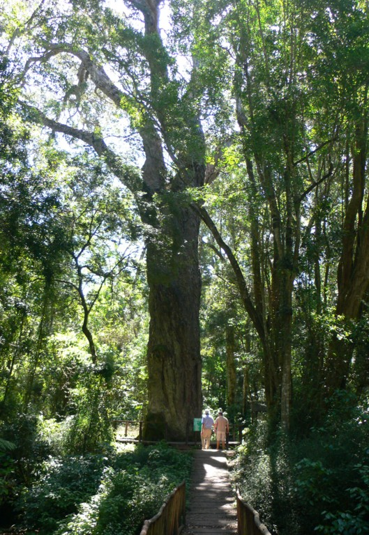 Outeniqua yellowwood (The Big Tree) in Wilderness NR, South Africa, Feb 2007. My image